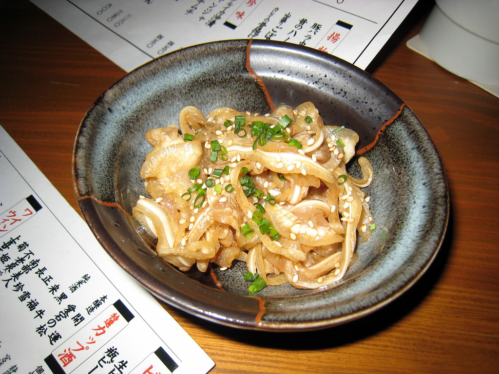 Mimiga(Japanese:ミミガー) Sliced pig ears.Okinawa Cuisine.ミミガー